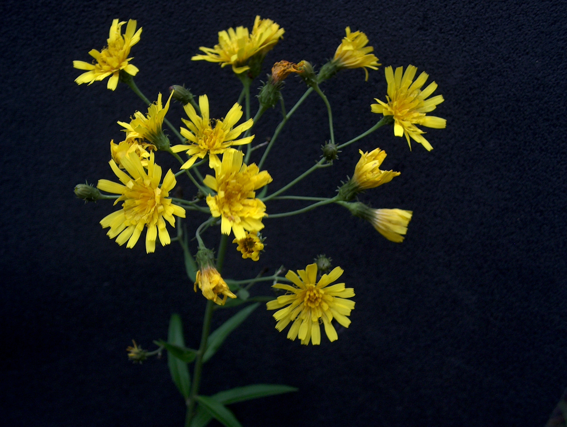 Hieracium umbellatum, Narrowleaf Hawkweed - Kerava, Finland